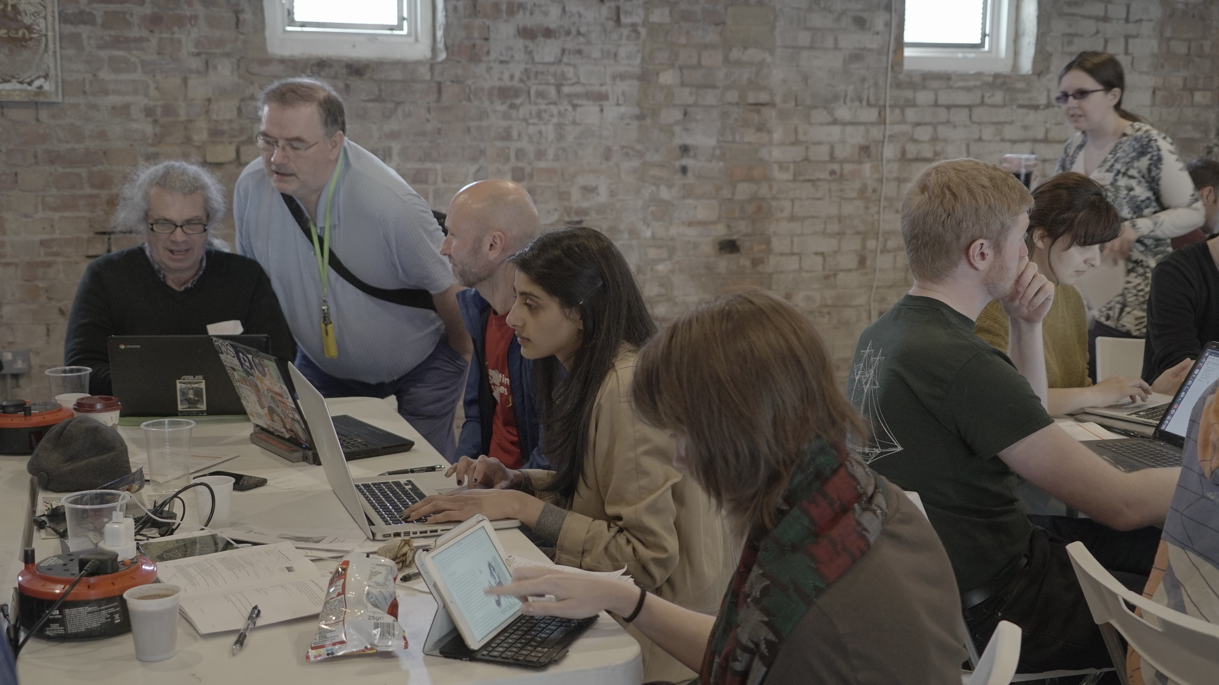 Editathon at Newspeak House, East London, on 14 May 2016 to improve information about the EU and Referendum on Wikipedia.